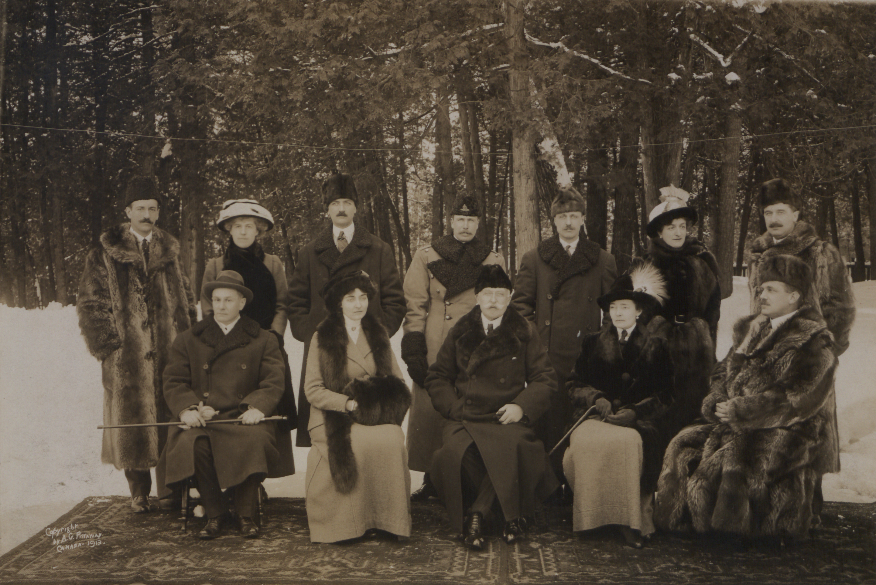 Original caption: “HRH the Duke of Connaught and staff.”